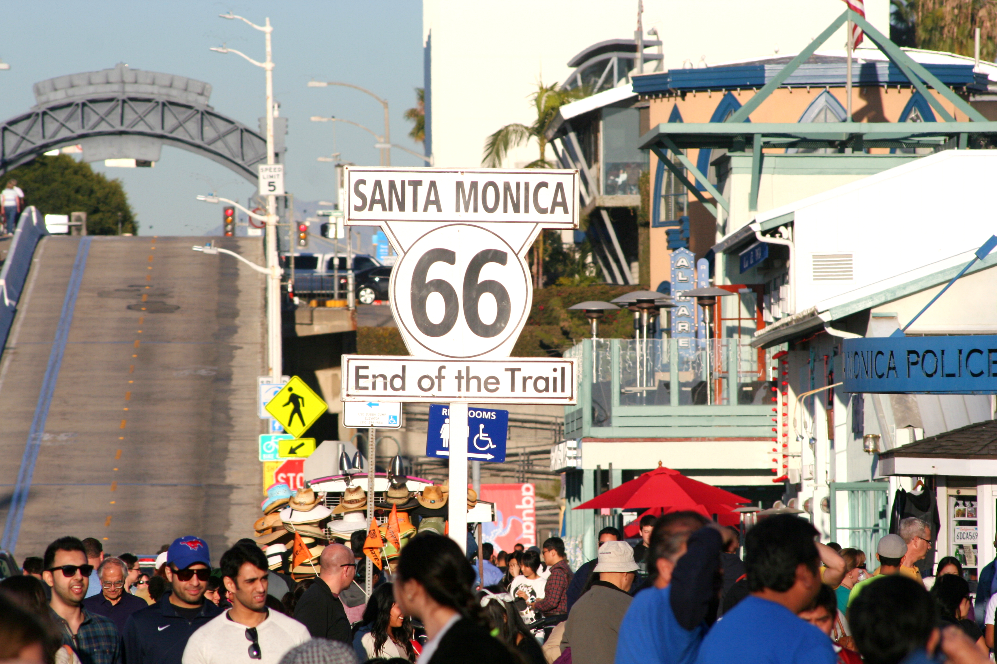 The sign of the Route 66 western terminus at the Santa Monica Pier